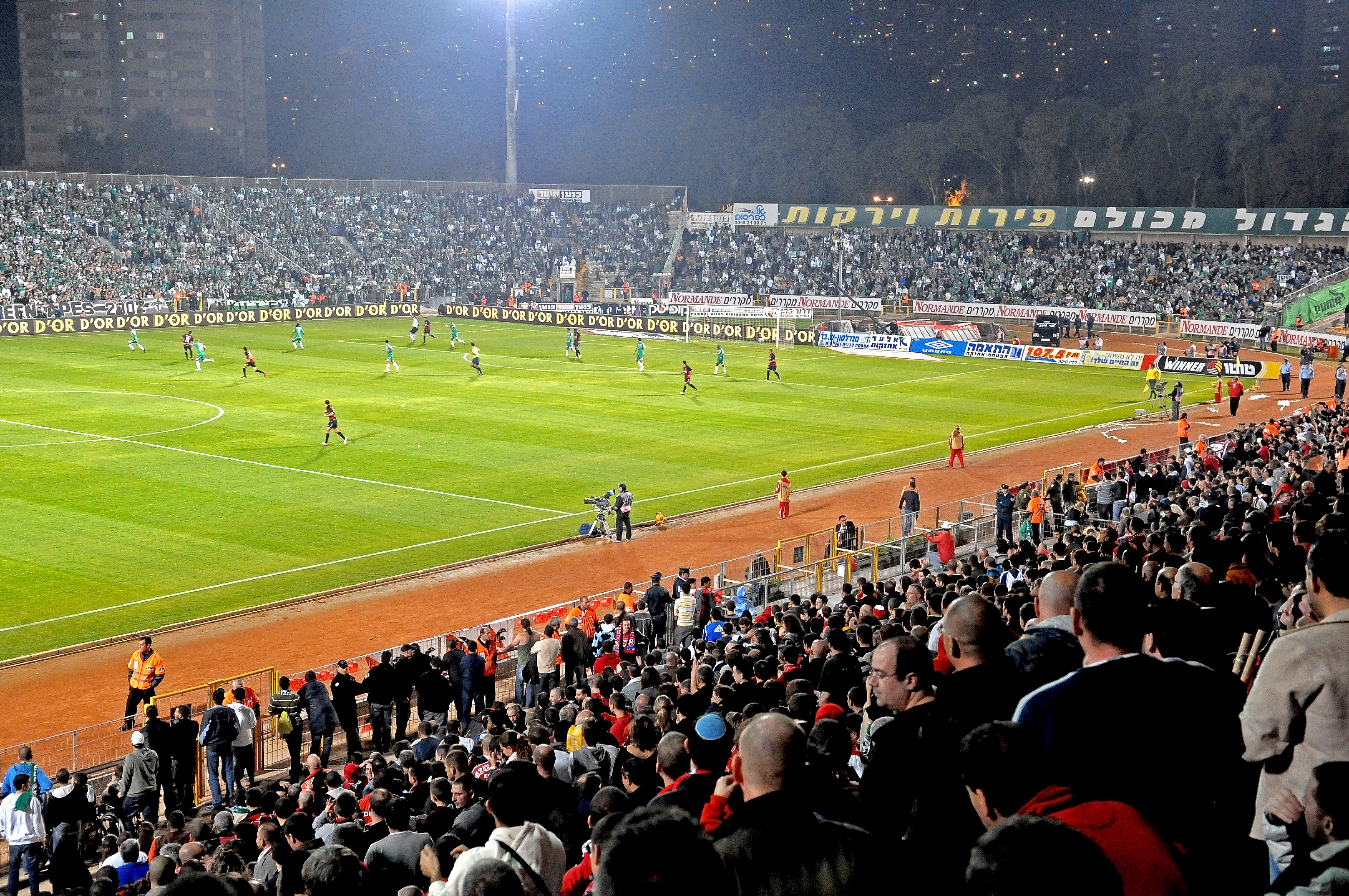 Kiryat Eliezer Stadium in Haifa, Israel during a local soccer derby (between Maccabi Haifa F.C. and Hapoel Haifa F.C.)